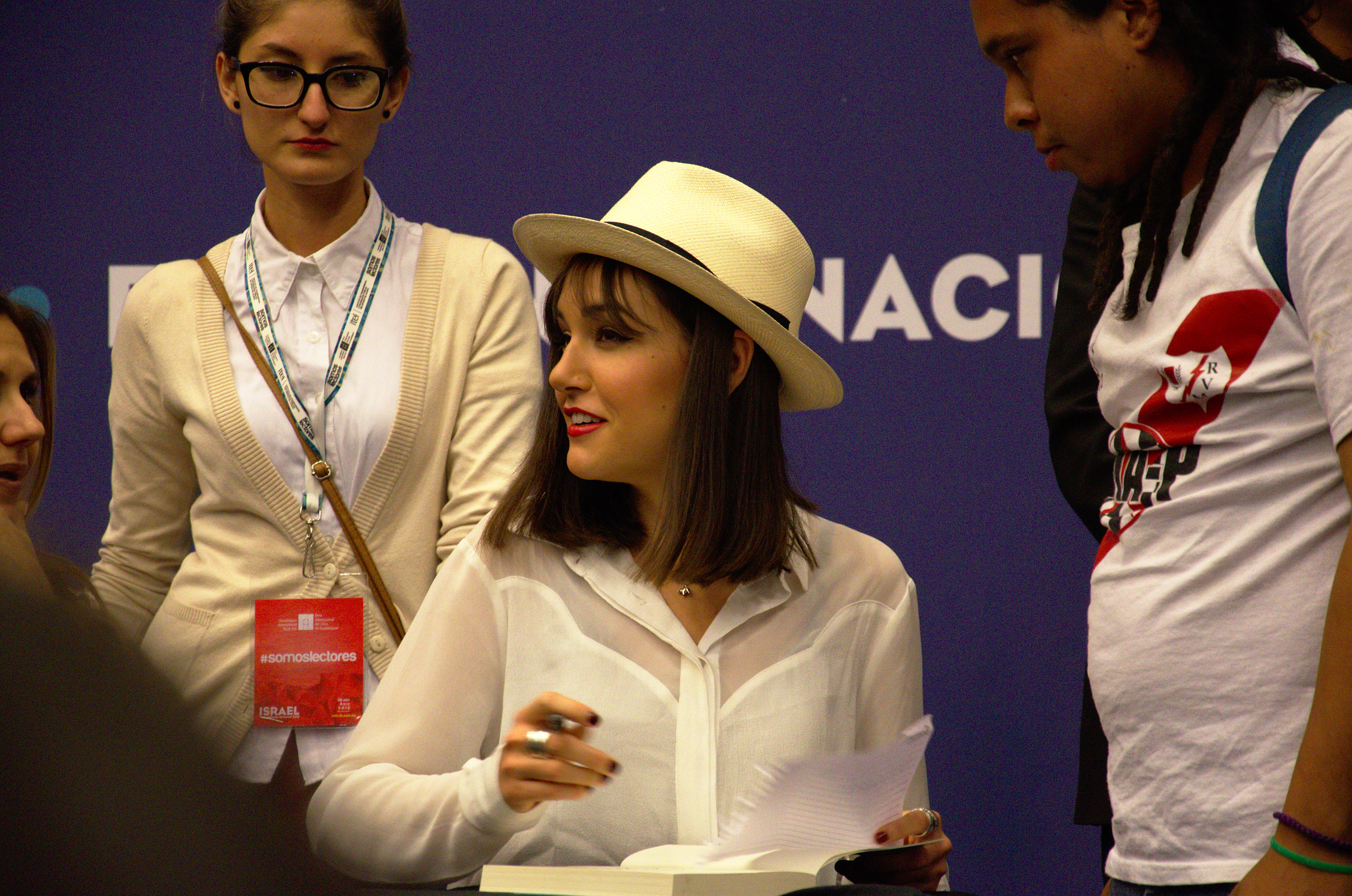 GST_GST_5821 Sasha Grey attends the annual Guadalajara International Book Fair, promoting her novel The Jouliette Society